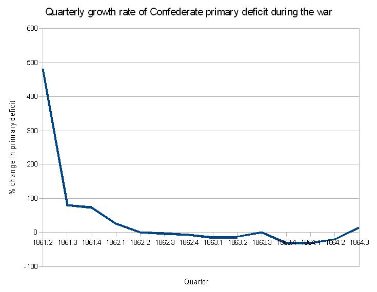 Growth rate of real primary deficit for the Confederacy during the American Civil War. Primary deficit is defined as real tax revenue minus real spending net of interest payments. Graph based on data in Burdkin and Langdana, Explorations in Economics History, 1993